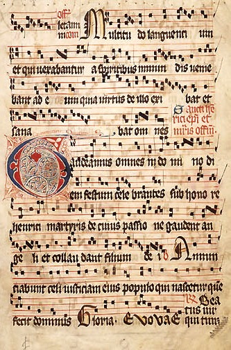 Graduale Aboense, hymn book of Turku, Finland. 14th-15th century.